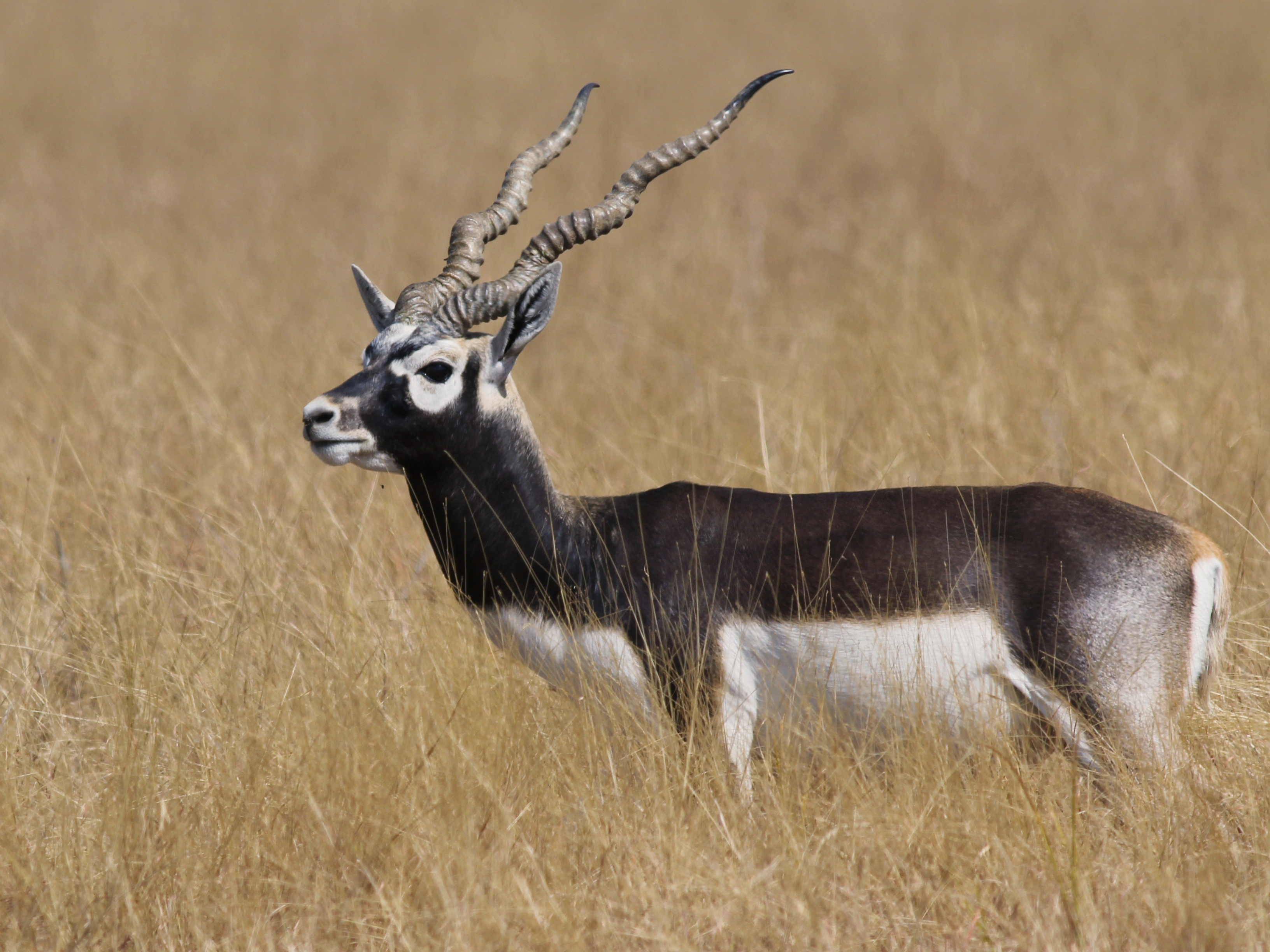 A blackbuck adult stag at the grasslands of Blackbuck National Park,velavadar ,Gujurat, India .